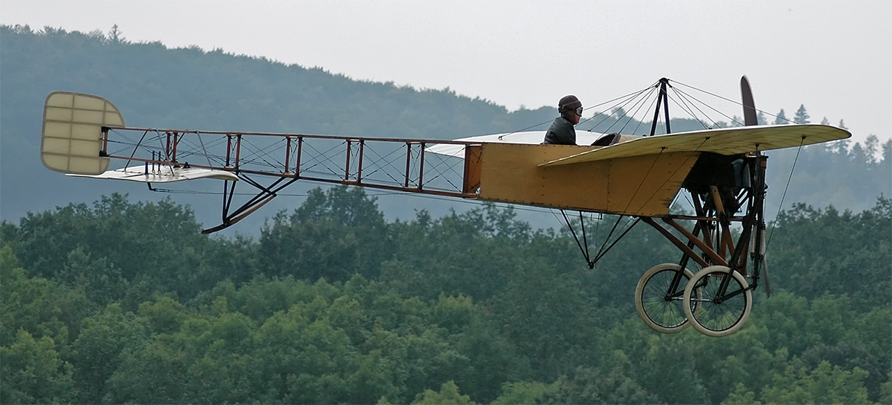 Blériot XI (build under license by AETA in Sweden between 1914 and 1918).